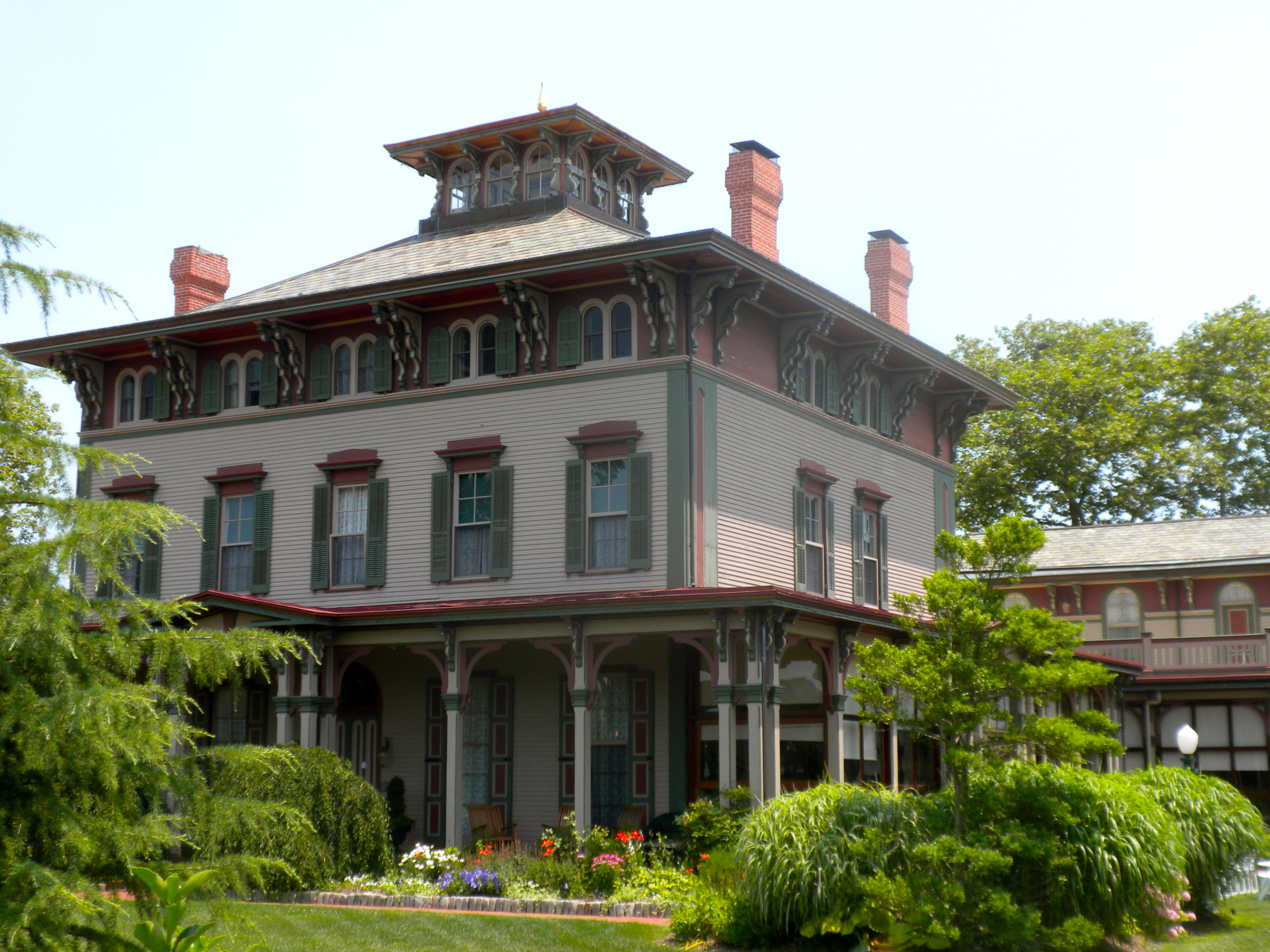 George Allen House, 720 Washington Street, Cape May, New Jersey aka the Southern Mansion. In Cape May Historic District and National Historic Landmark since 1976